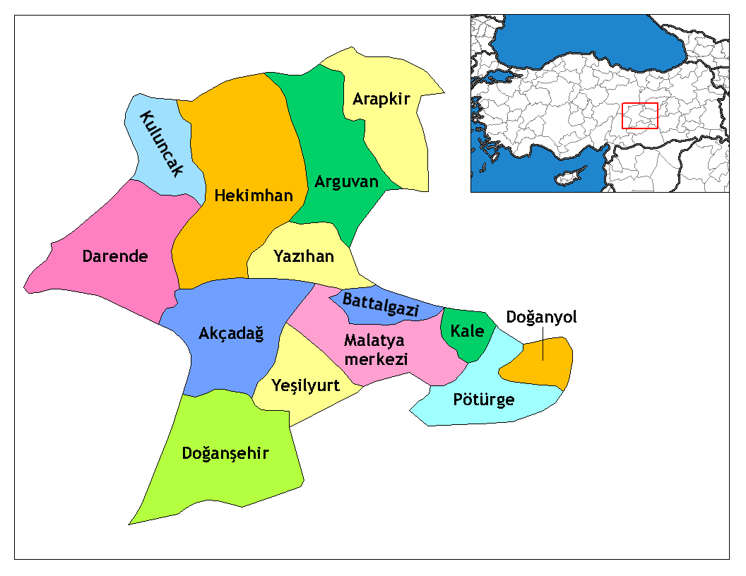 Map of the districts of Malatya province in Turkey. Created by Rarelibra 16:35, 4 December 2006 (UTC) for public domain use, using MapInfo Professional v8.5 and various mapping resources. Edited by One Homo Sapiens Corrected text where İ,Ş,ı,ğ,or ş occurs in name. Source: [statoids-com]. Increased font size and enhanced color differences among adjacent districts.